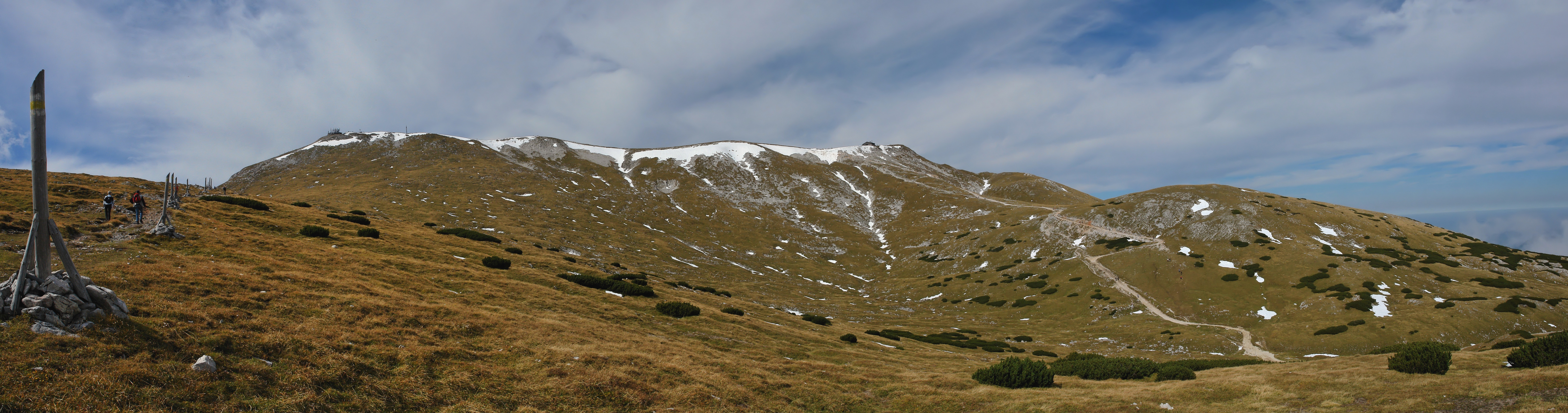 Panoramic view of the Schneeberg [1]. The Schneeberg is the highest mountain of Lower Austria (Niederösterreich) and the most eastward lying 2000 m mountain of the Alps. Hikers on the yellow trail (7-8 hours hike): Losenheim (872m) - Edelweisshütte (1248m)- Fadensteig - Kaiserstein (2061 m) - Fischerhütte (2049 m) - Klosterwappen (2076 m) - Hochschneeberg (1792 m) - Station Baumgartner (1.398 m) - Puchberg (585 m). Summit on the left: Klosterwappen (2076 m) with the radar station of the Austrian Army and telecommunication antenas. Mountain lodge on the right: Fischerhütte (Kaiserstein) [2]. Obtained by stiching 5 pictures (f/16, Iso-160, Exposure bias= 0 step; Exposure time= 1/320 s). Post-processing: noise reduction of the sky.